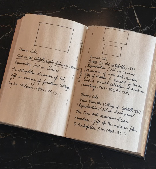 At the Thomas Cole National Historic Site.